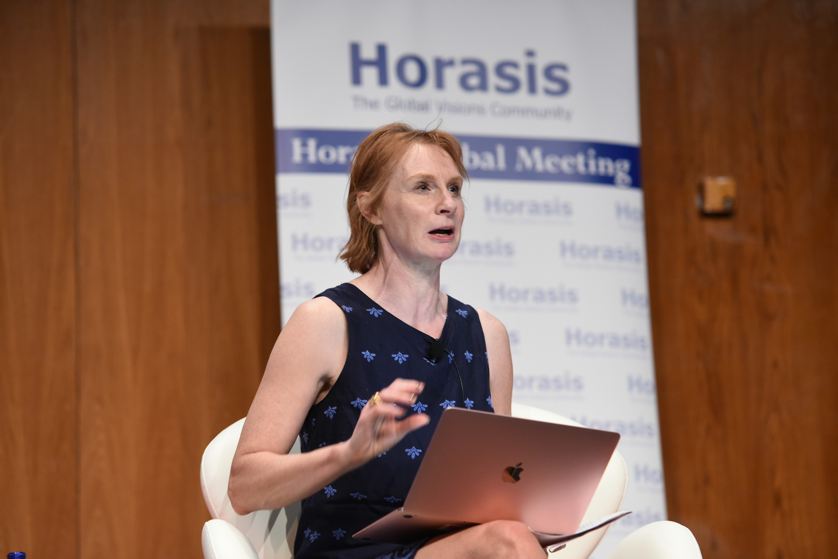 Anne McElvoy, Policy Editor, The Economist, UK, chairing the closing plenary